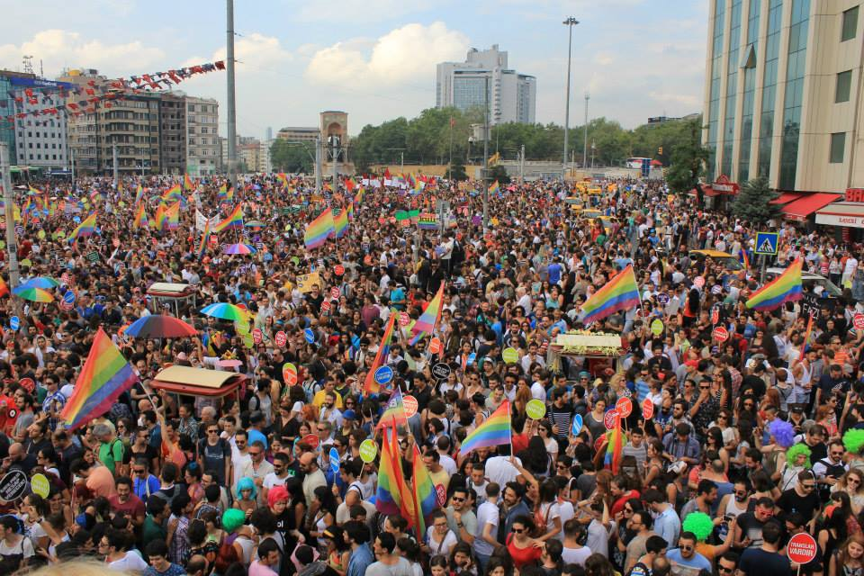 Tens of thousands attend the 2013 Gay pride at Taksim Square, Istanbul.